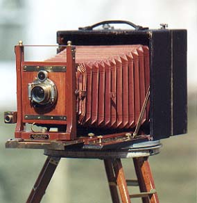 Photograph of a pristine 1922 Cirkut Camera.